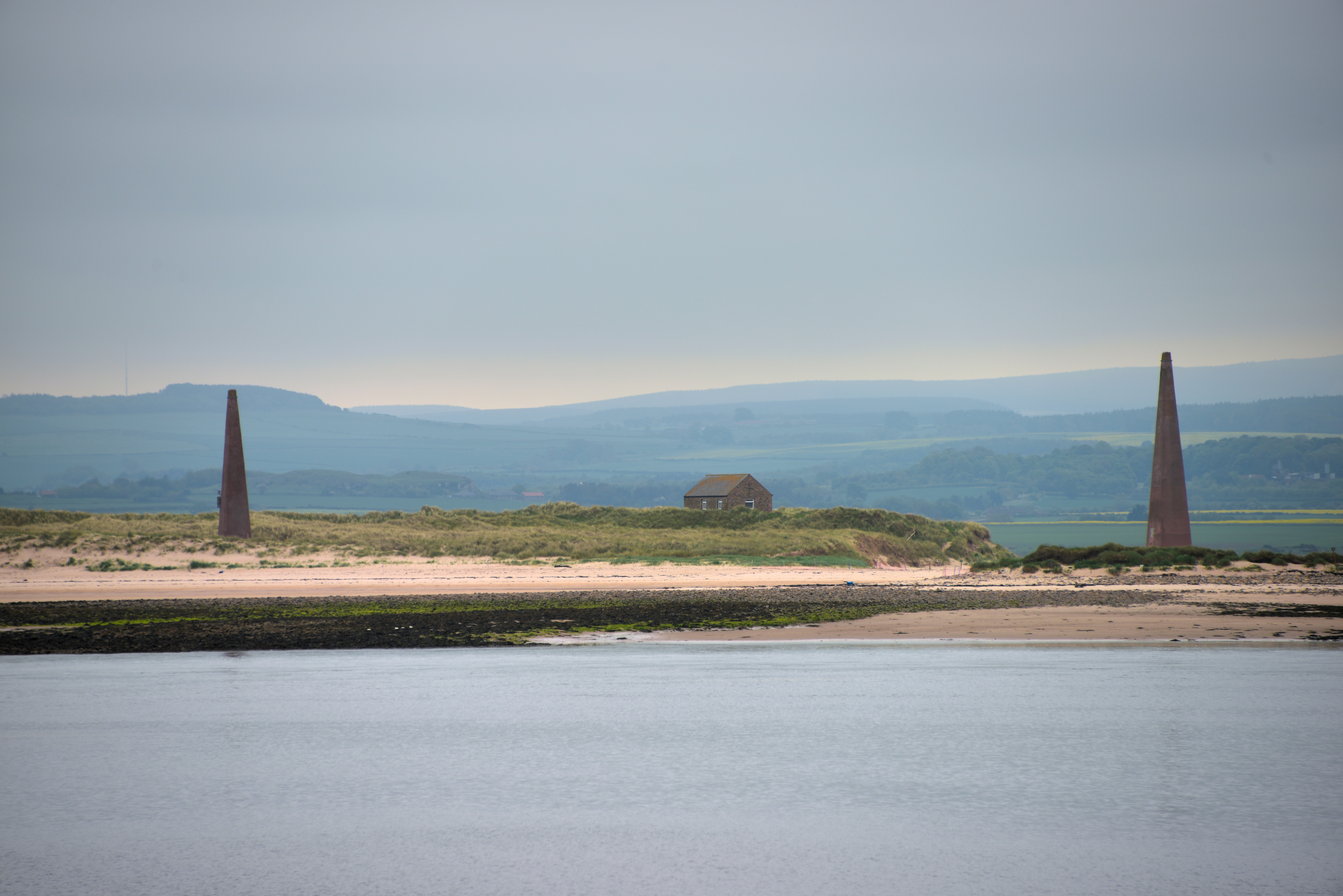 The Lindisfarne, or Guile Point, Lighthouses, providing a navigation guide for mariners to negotiate a very narrow channel into the Lindisfarne harbor.